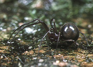 female Conoculus lyugadinus from Okinawa.